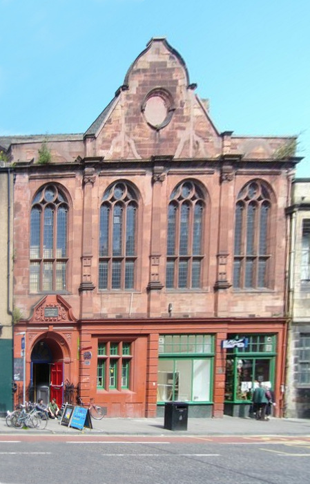 Forest Café, Bristo Place, Edinburgh